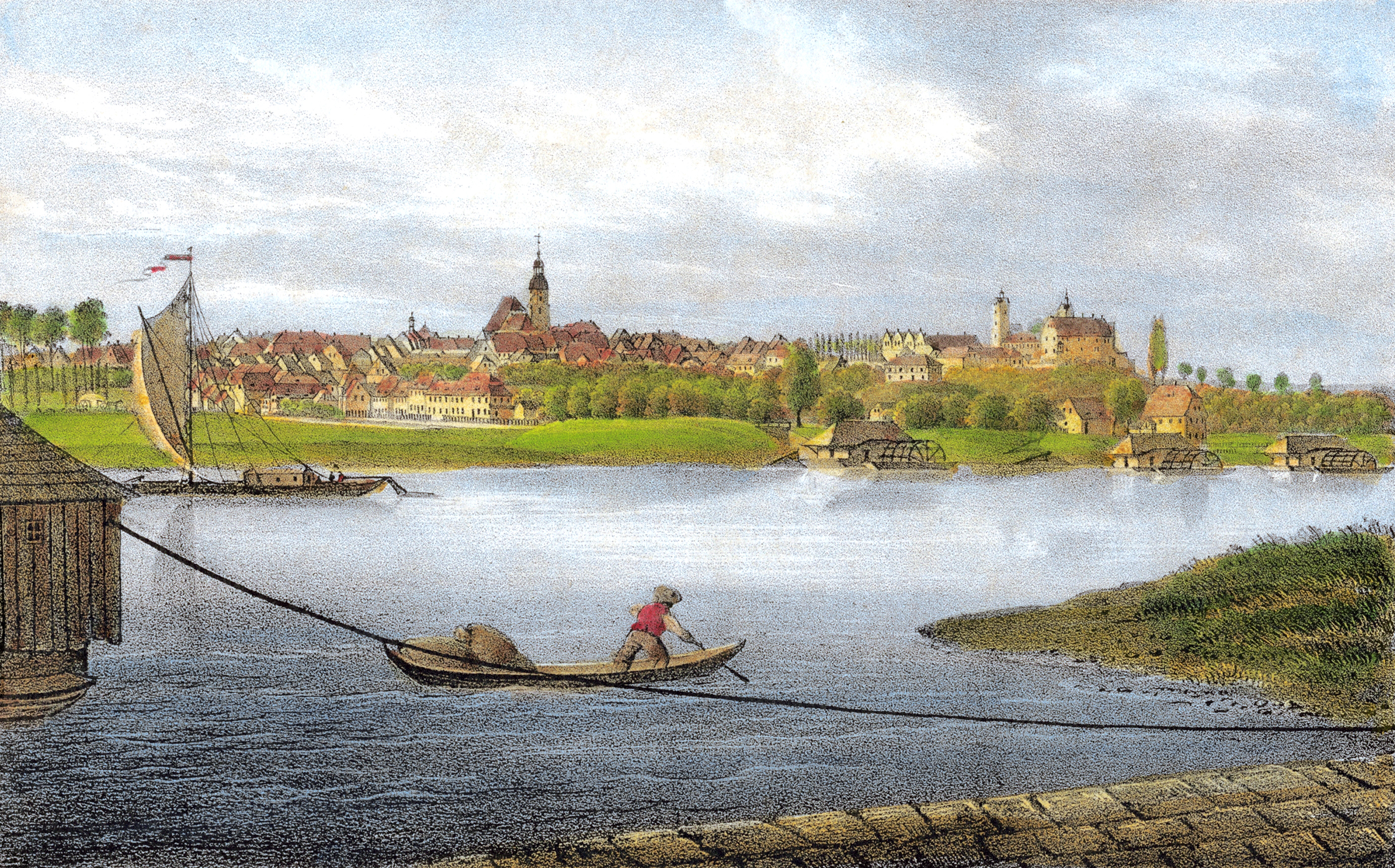 The miller from Lorenzkirch leaves his shipmill at the river Elbe with flour bags in his rowboat. In the background are three shipmills tied up alongside the embarkment by the small town Strehla, Saxony, Germany. Coloured Lithograph "Strehla" by Carl Wilhelm Arldt about 1840.